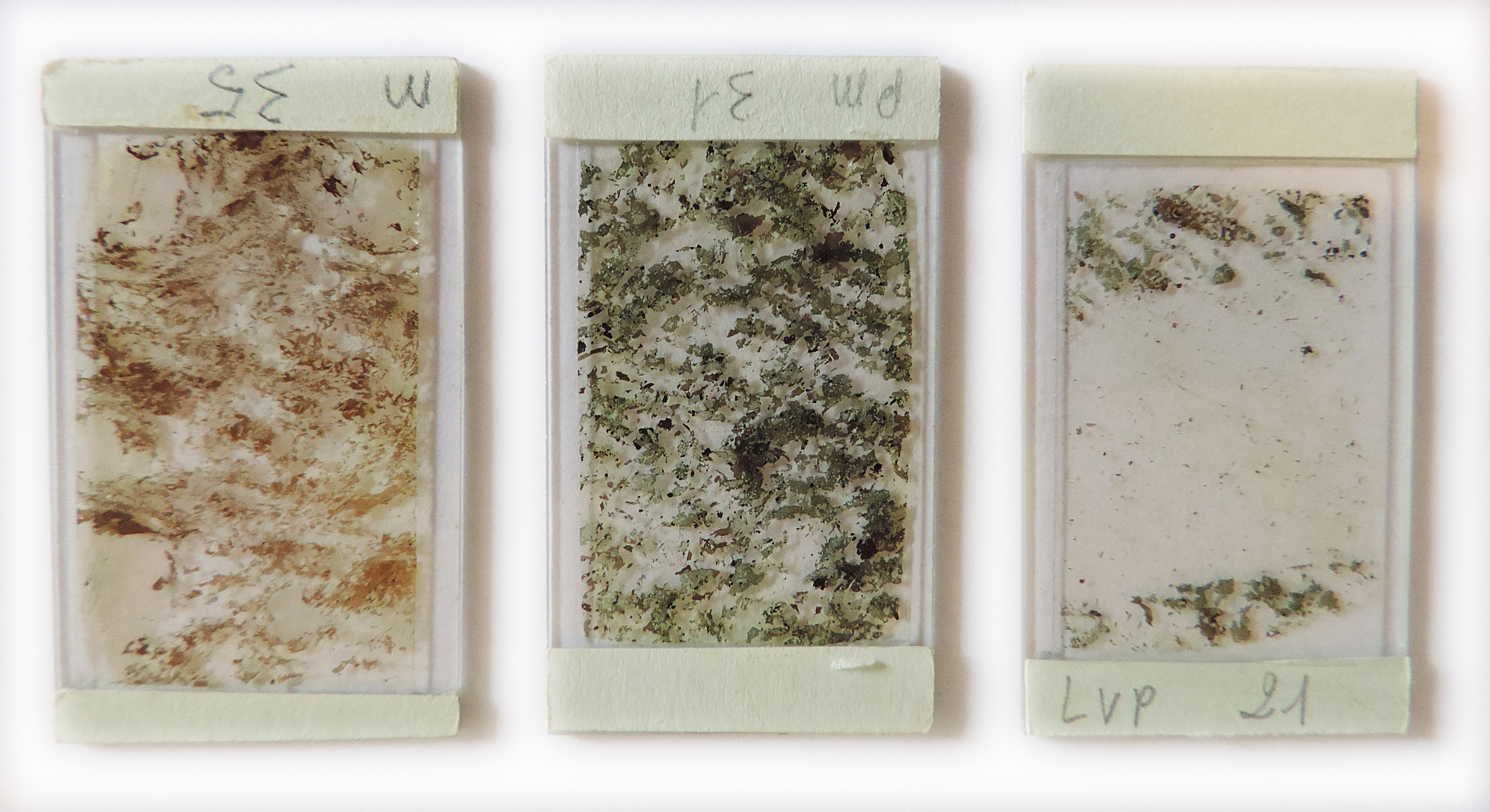 Examples of thin sections mounted on slides. The surface is about 4 cm2 and the thickness is 30 μm